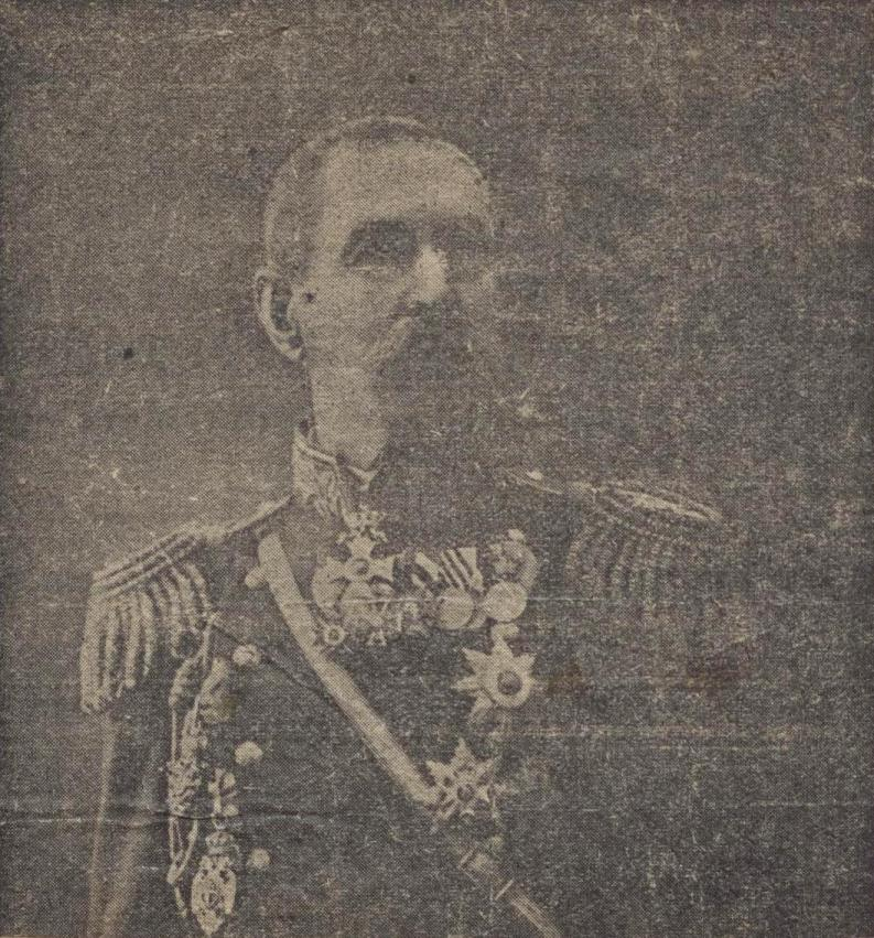 Bulgarian general major Krastyu Marinov (1855-1927), a newspaper clip in the archives of the historian and journalist Vasil Paskov